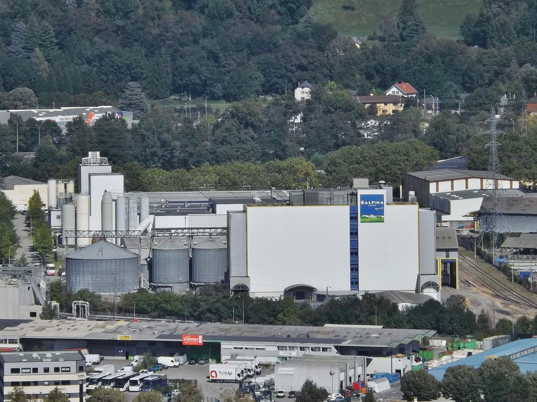 Panoramic sight on the pasta maker Alpina Savoie production site and head office, in Chambéry, Savoie, France.